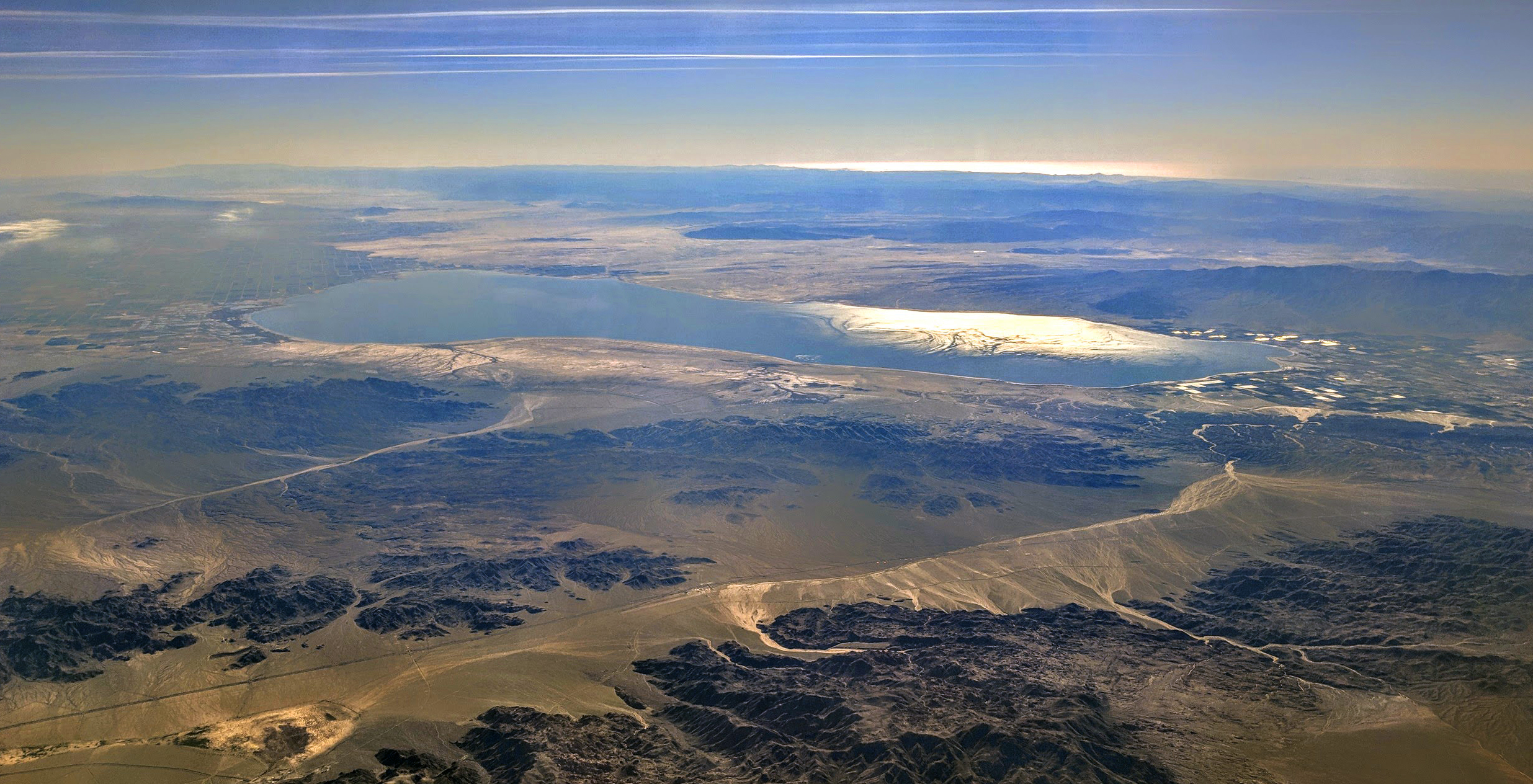 Aerial view of the Salton Sea from the north-northeast (from over Joshua Tree National Park), looking into the early afternoon sun